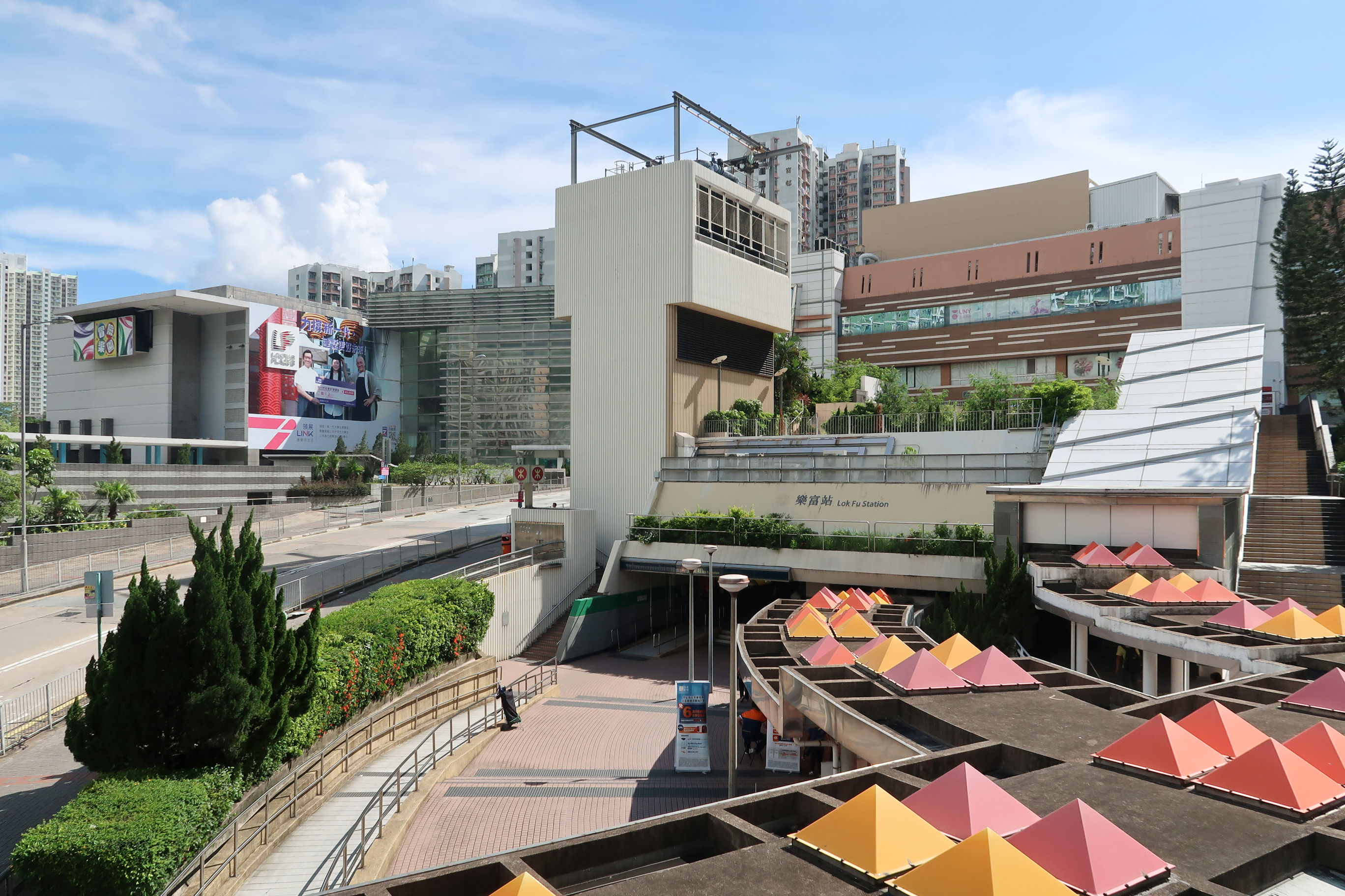 Lok Fu Station outside view